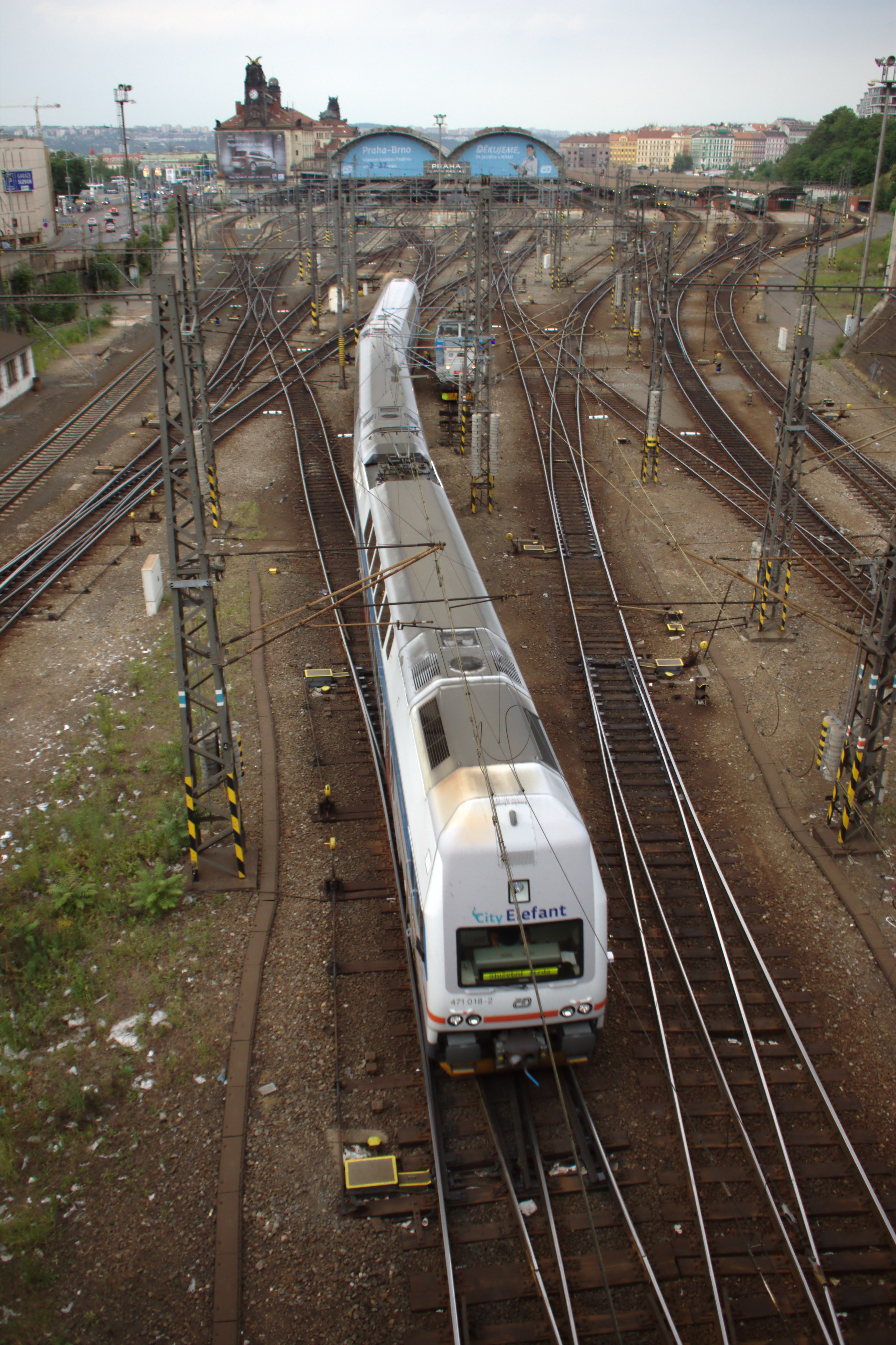 EMU City Elephant leaving main train station in Prague, CZ